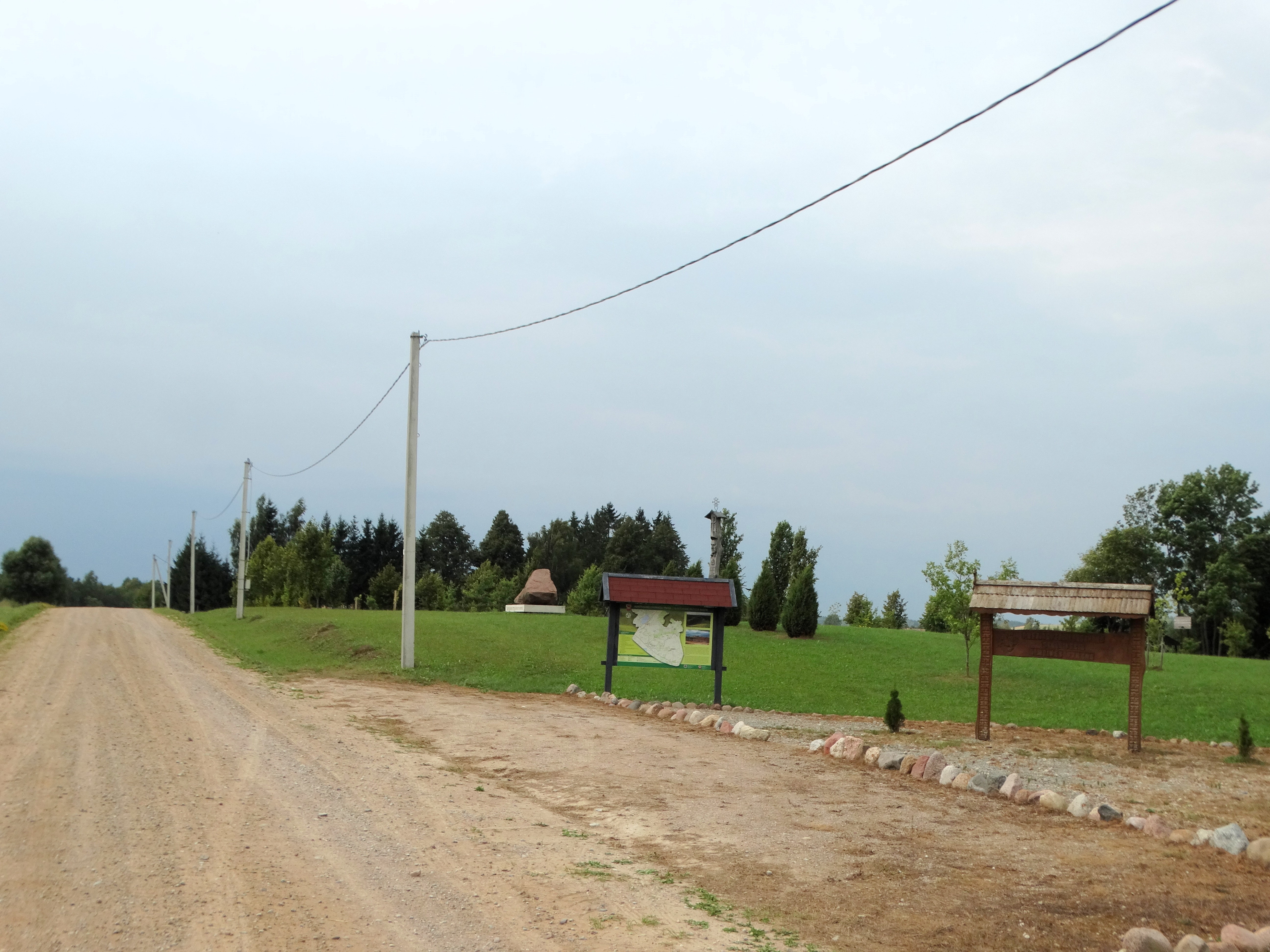 Memorial park in the homeland of President A. Stulginskis in Kutaliai, Šilalė district, Lithuania